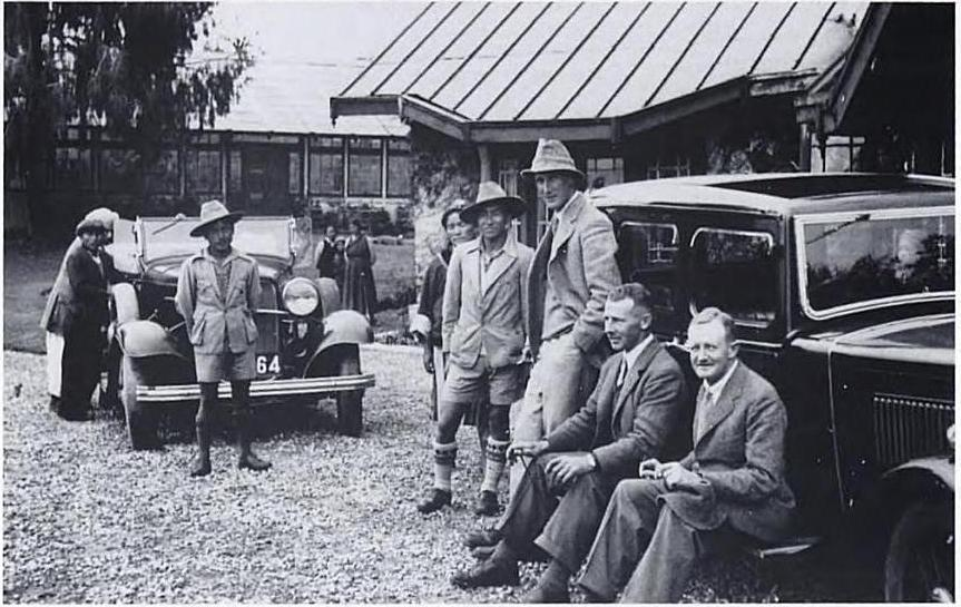 Frank Ludlow, standing [with characteristic hat], Major George Sherriff, and Frederick Williamson, with onlookers at the Residency, c 1933